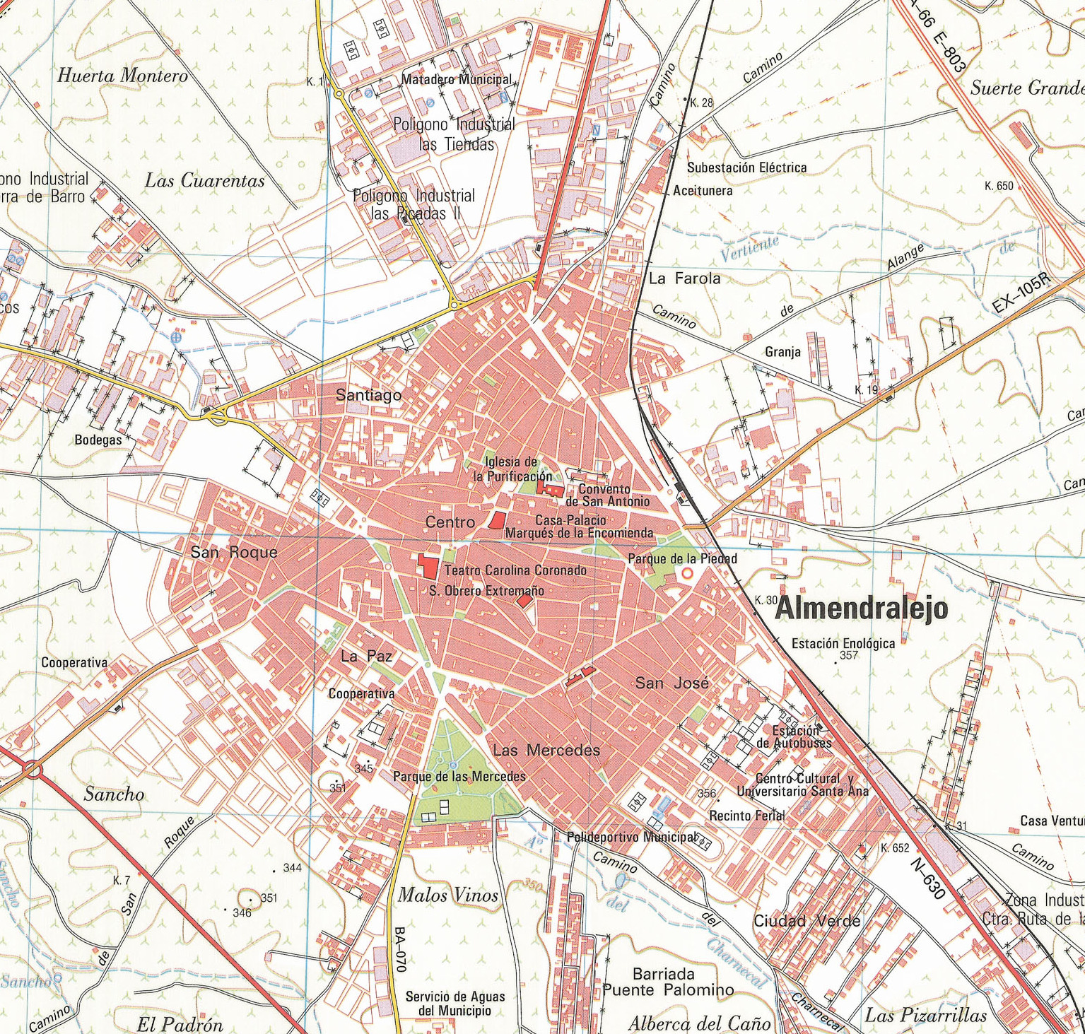 Fragment 0803c3 of the National Topographic Map of Spain in 2010 at a scale of 1:25000 printed and scanned with a resolution of 250 ppi. It shows Almendralejo.